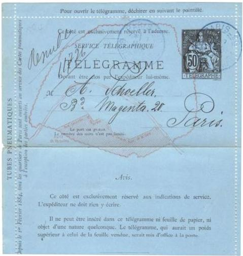 1884 telegraph form of France